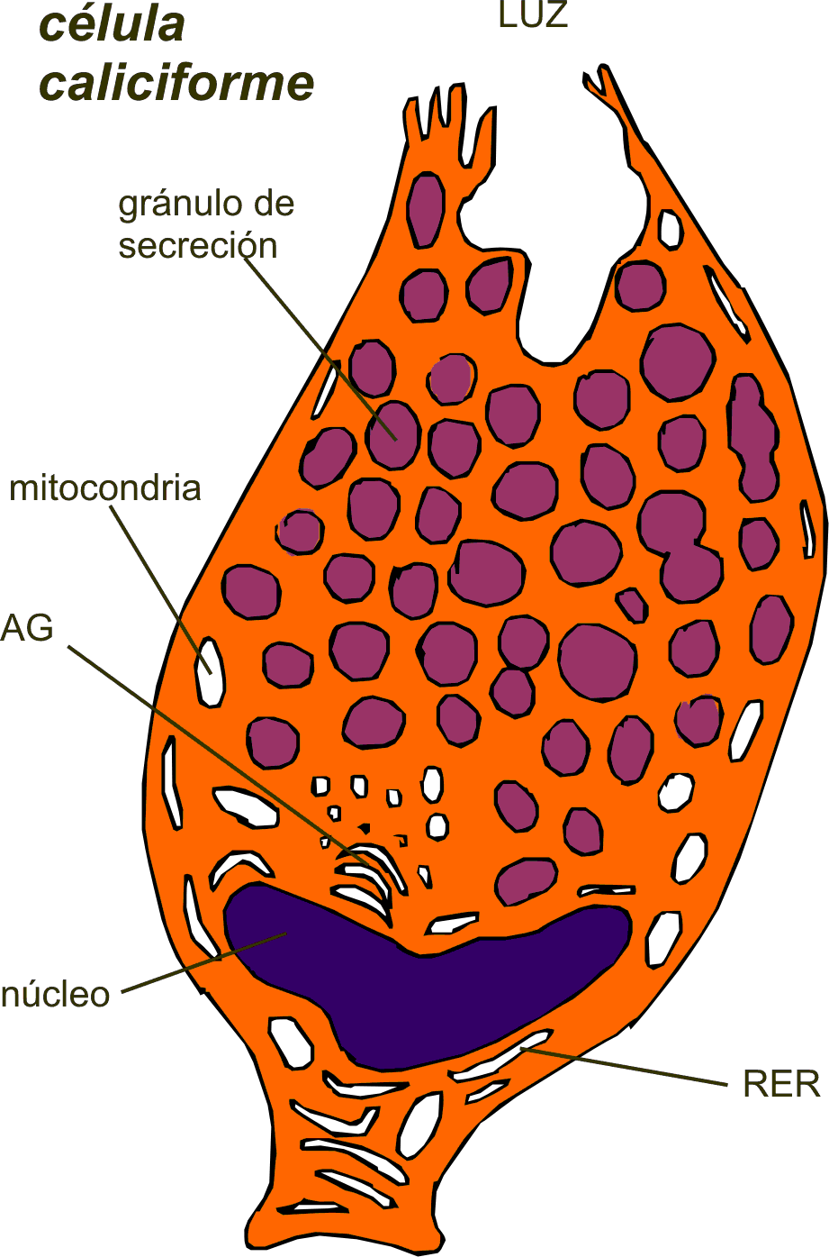 globet cell diagram